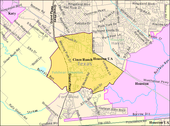 Map of Cinco Ranch CDP